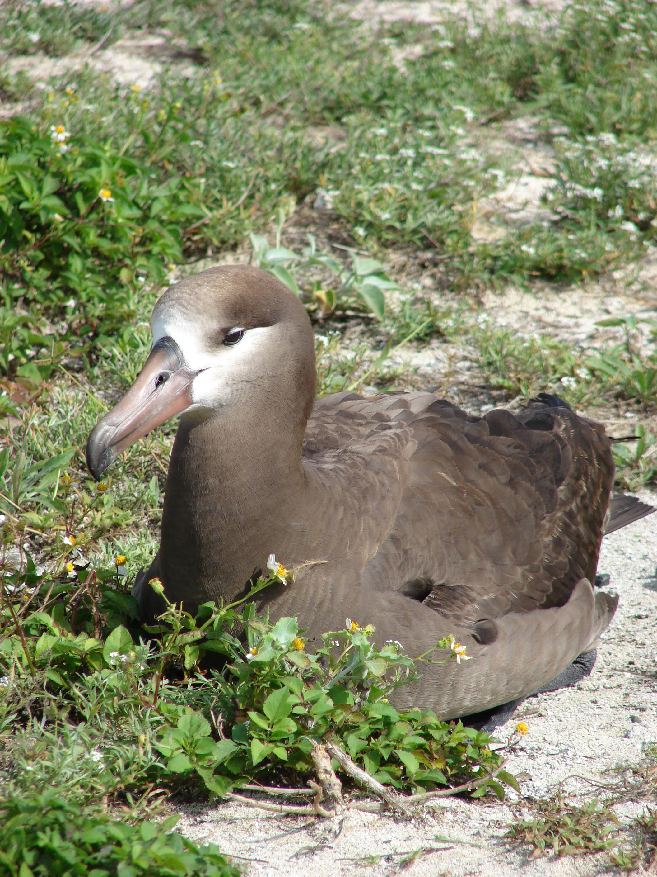 Bidens alba var. radiata (habit with black footed albatross). Location: Midway Atoll, Rusty Bucket Sand Island